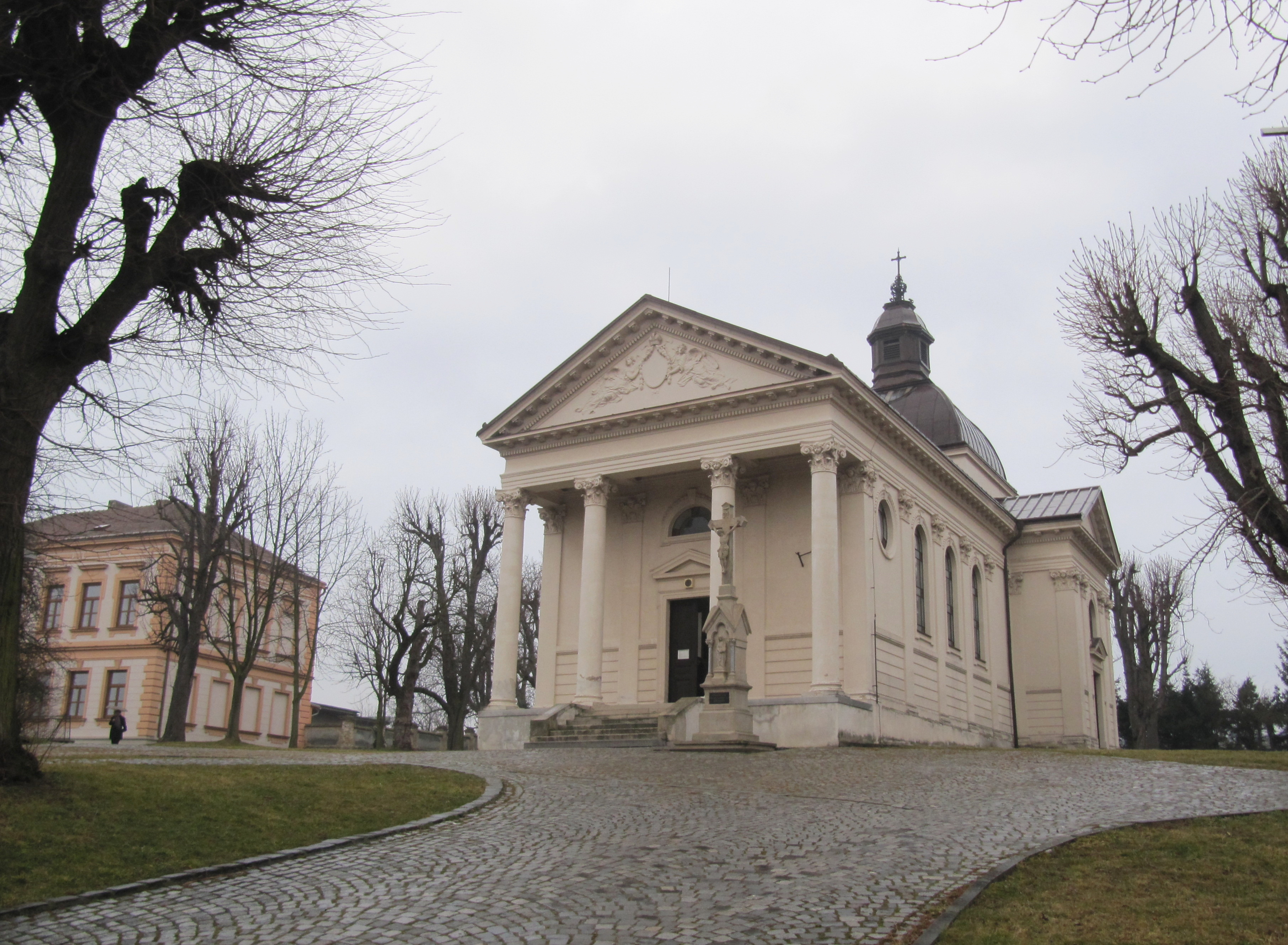 Věžky, Kroměříž District, Czech Republic. Church of St. Elizabeth.